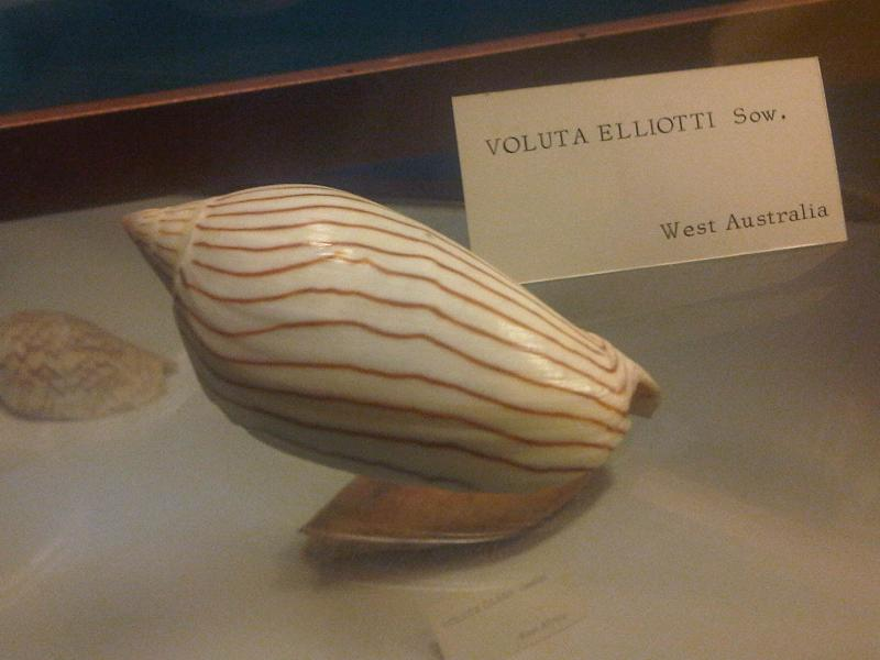 Amoria ellioti - syn: Voluta elliotti at the National Museum of Natural History, Vilhena Palace, Republic of Malta.